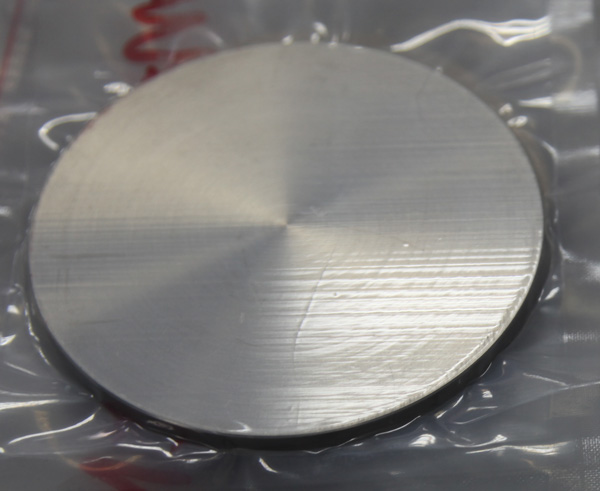 MoCu plate is famous for high thermal conductivity,excellent hermeticity.